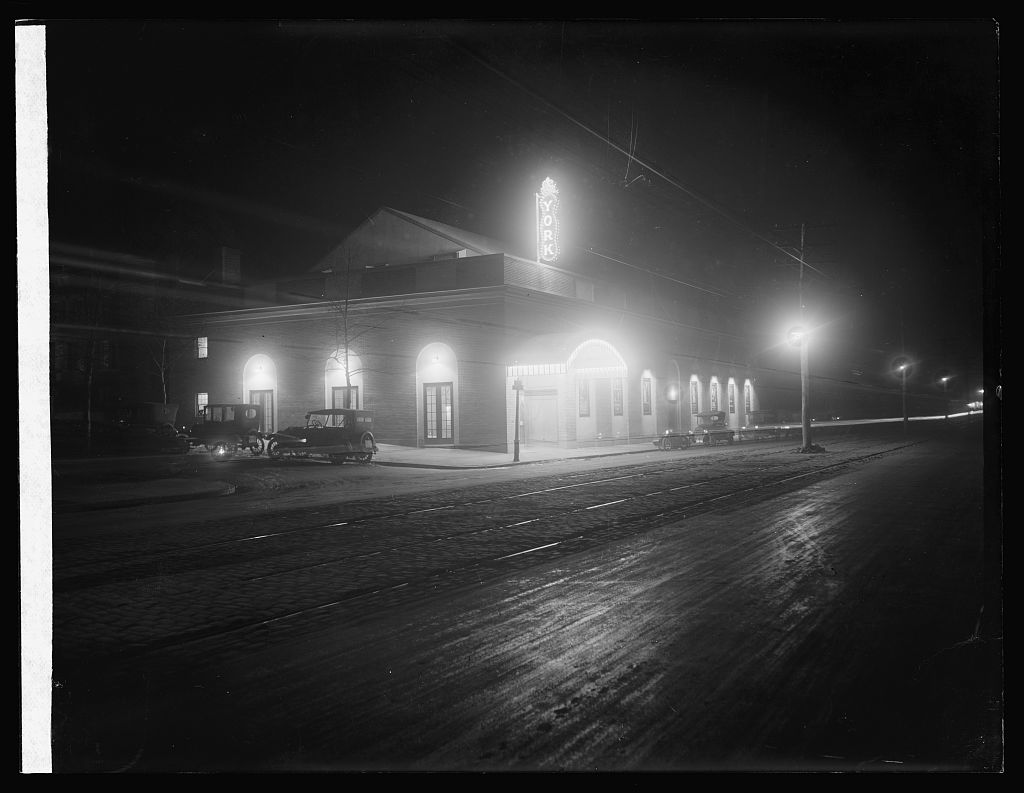 The York Theater, located at 3635-3641 Georgia Avenue, shortly after it was completed ca. 1920